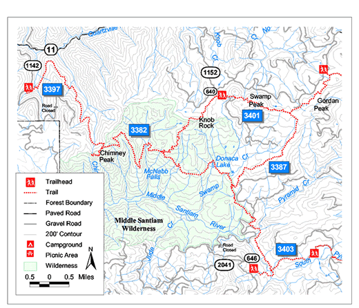 Map of the Middle Santiam Wilderness and surroundings in Linn County, Oregon, United States